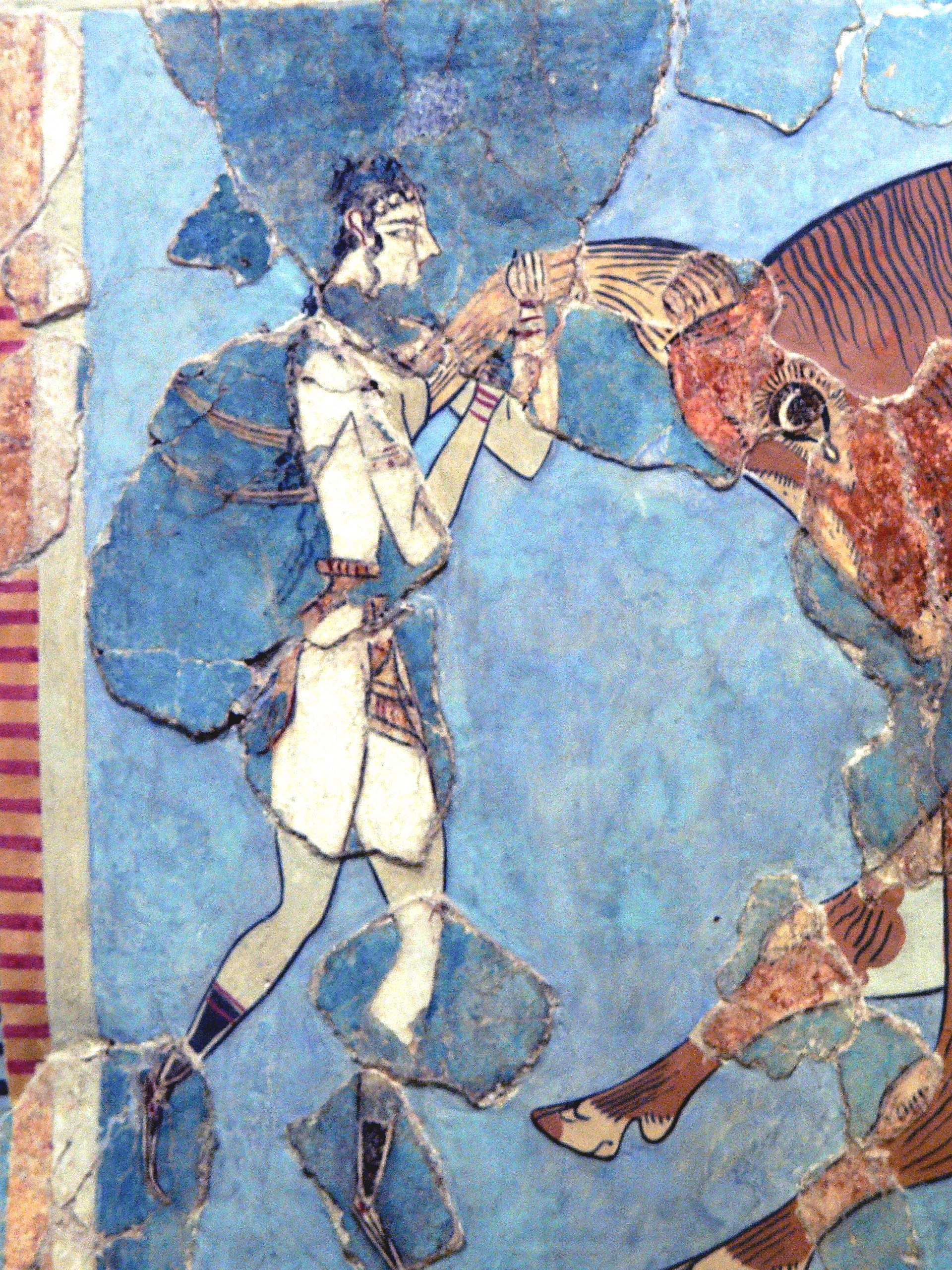 Archaeological Museum of Herakleion. Minoan bull leaping fresco ( 1600 - 1450 B.C. ) - detail